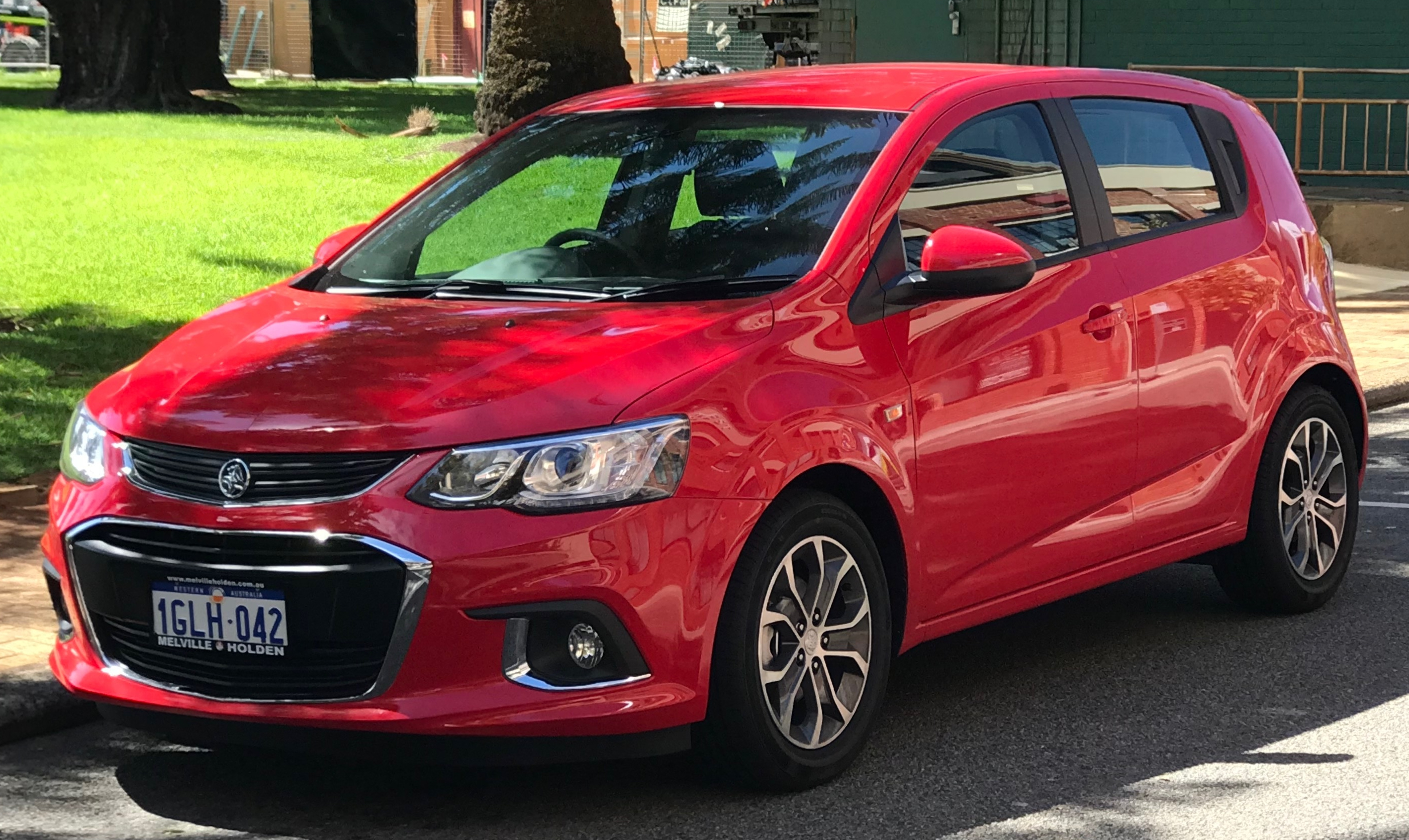 2018 Holden Barina (TM MY18) LS hatchback. Photographed in Fremantle, Western Australia, Australia.